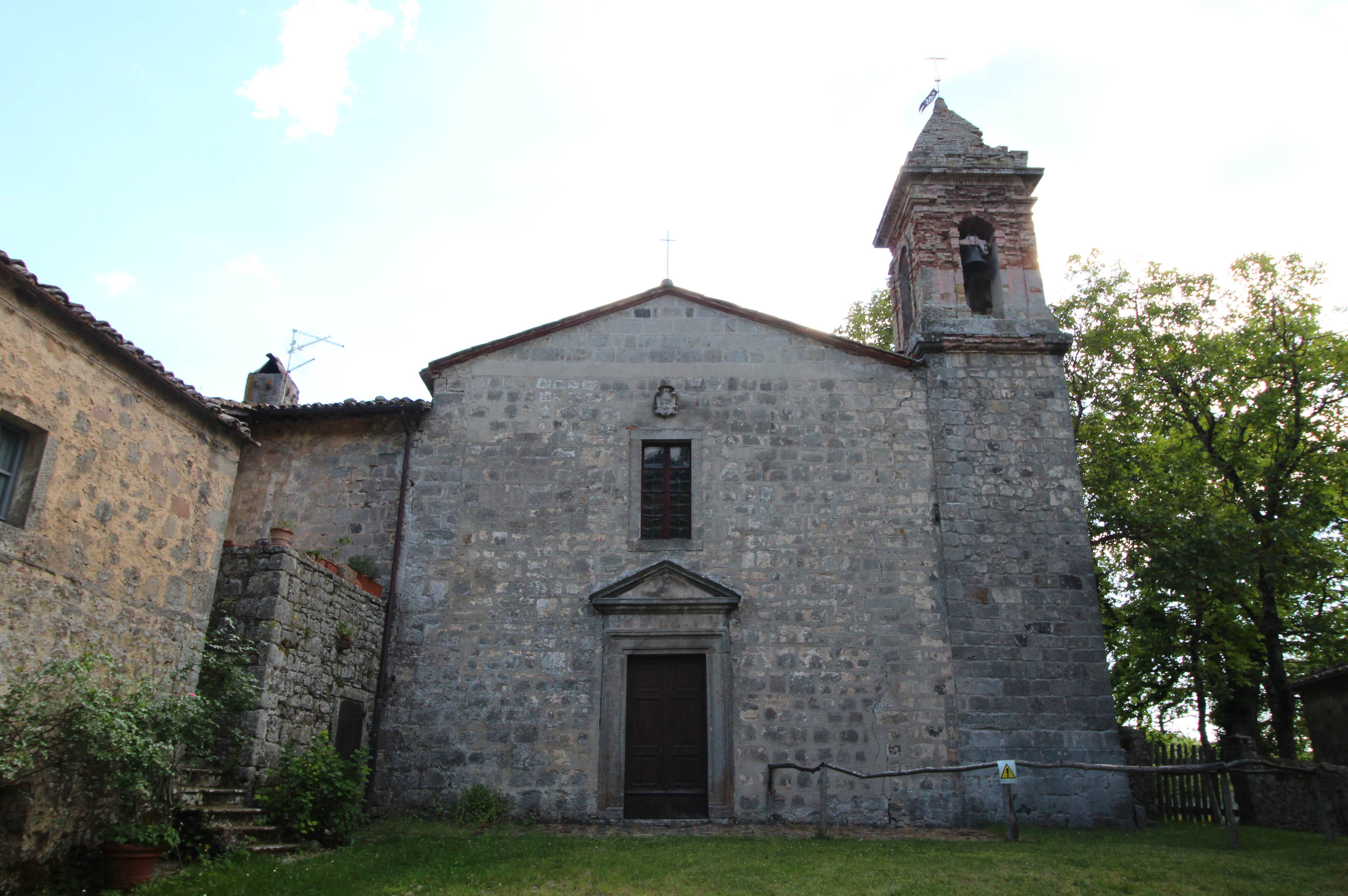 Church San Marcello (Marcellus II), Contea del Vivo (Eremo del Vivo), Vivo d'Orcia, hamlet of Castiglione d’Orcia, Province of Siena, Tuscany, Italy